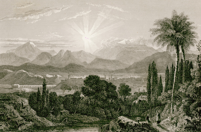 Theben Thèbes - Frommel Carl - 1830